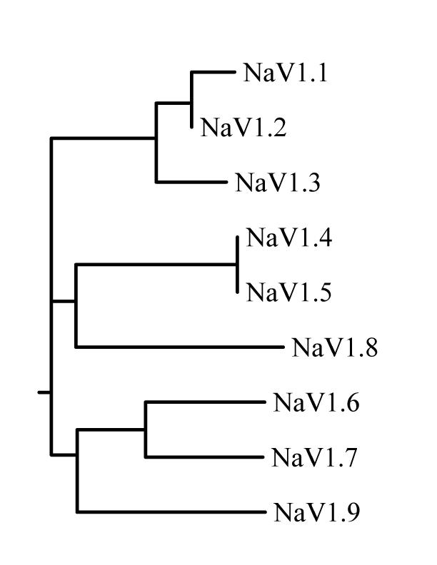 Author: Devon Ryan (User:dpryan, i.e. me) I created this using the available human Nav channel sequences and the phylip program. Anyone is free to use/alter/redistribute/whatever it. This phylogeny is incorrect. Nav1.1, 1.2, 1.3, 1.7 are sister paralogs, Nav1.5, 1.8, 1.9 are related in sequence and TTX resistance, Nav1.4 is a single node, as well as Nav1.6. Early vertebrates had a single Nav channel on each of four chromosomes, and in the first two families several gene duplications occurred.